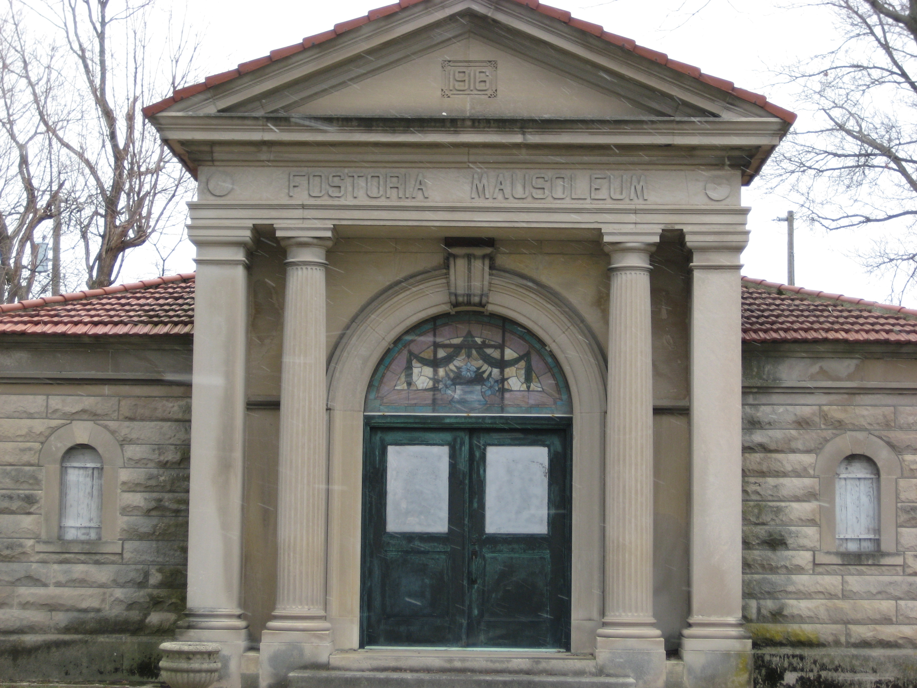 Front of the Fostoria Mausoleum, located at 702 Van Buren Street on the Hancock County side of Fostoria, Ohio, United States. Built in 1916, the Neoclassical mausoleum is listed on the National Register of Historic Places.